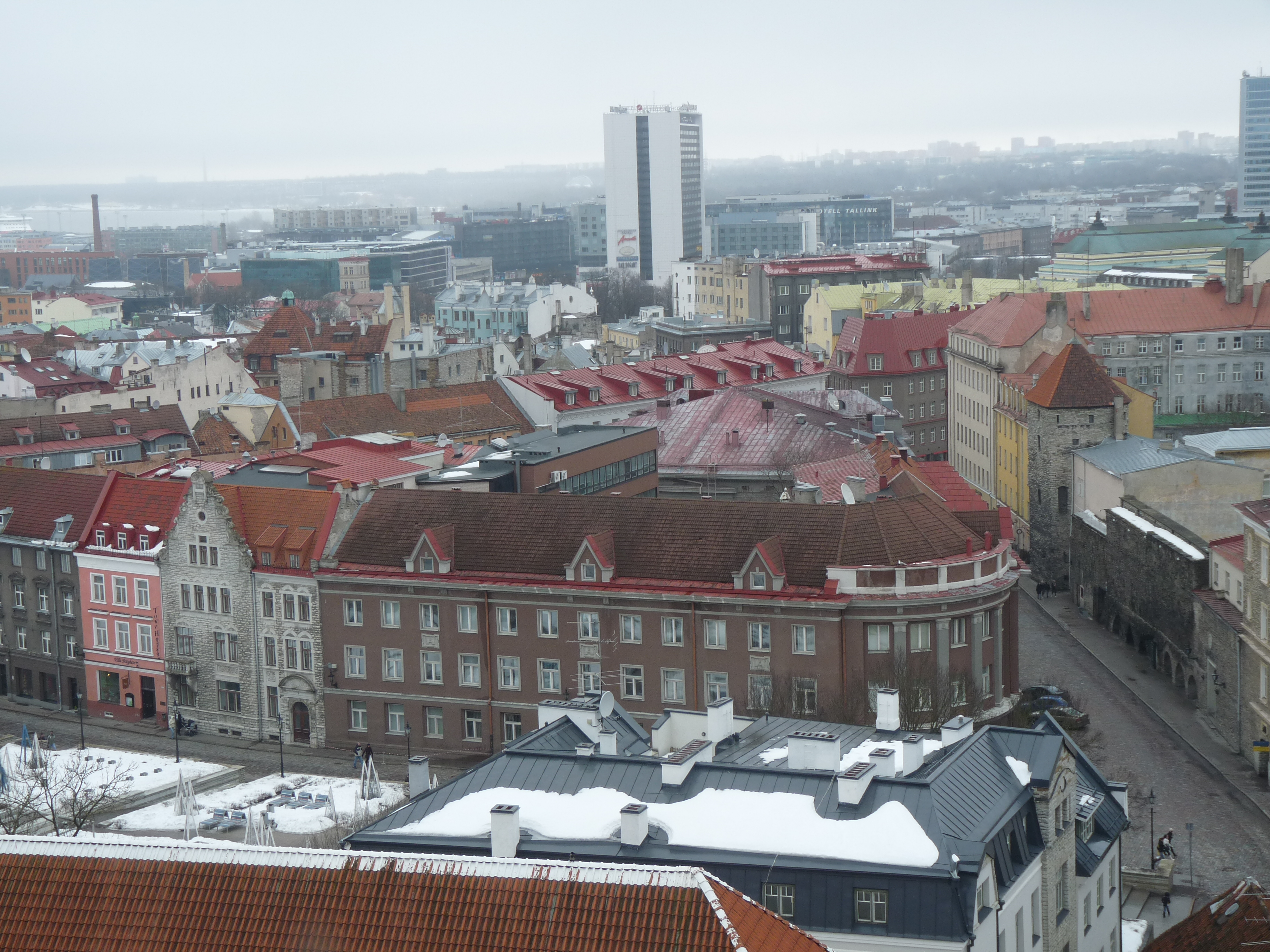 Tallinn old town